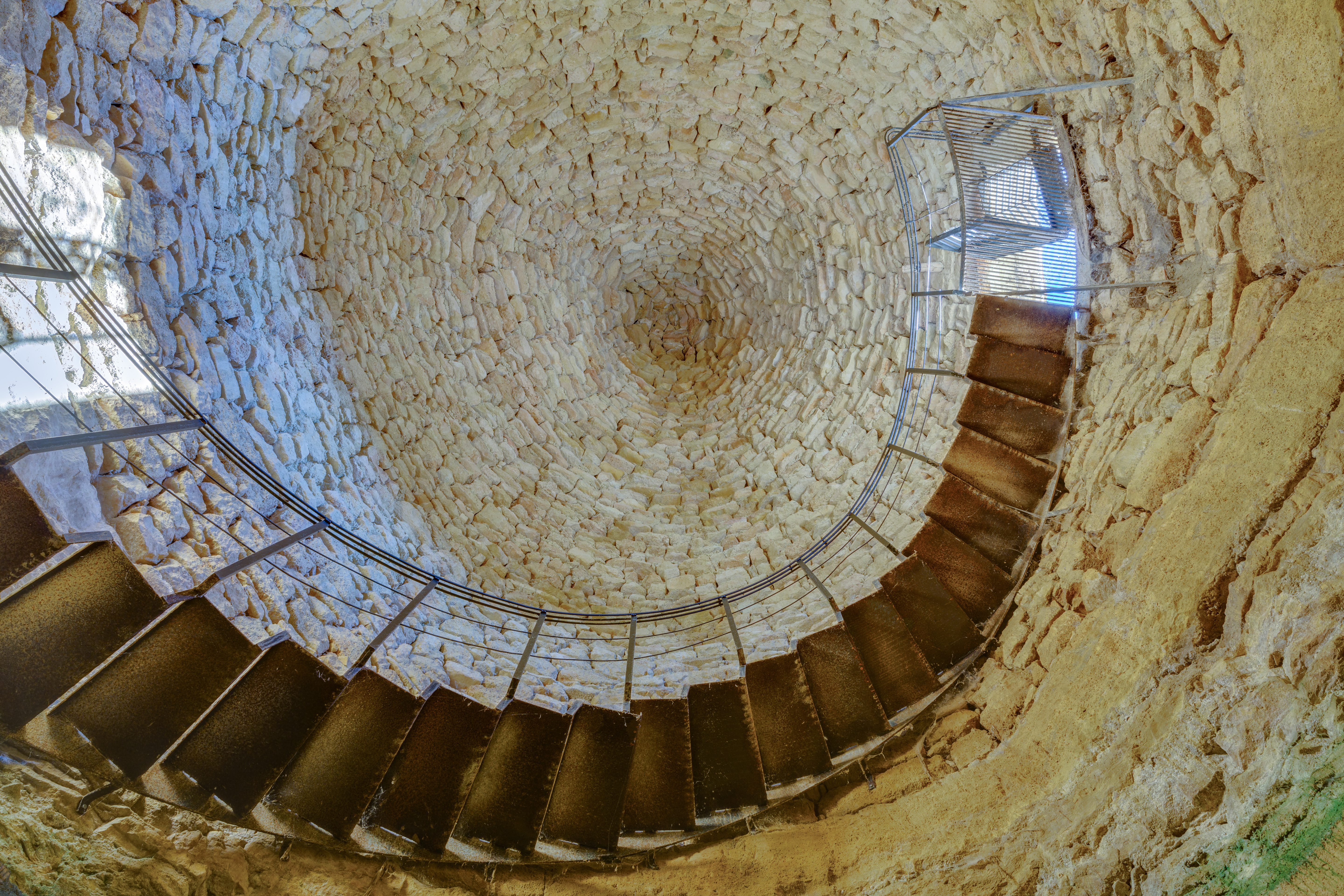 Icehouse of Culroya, Fuendetodos, Zaragoza, Spain